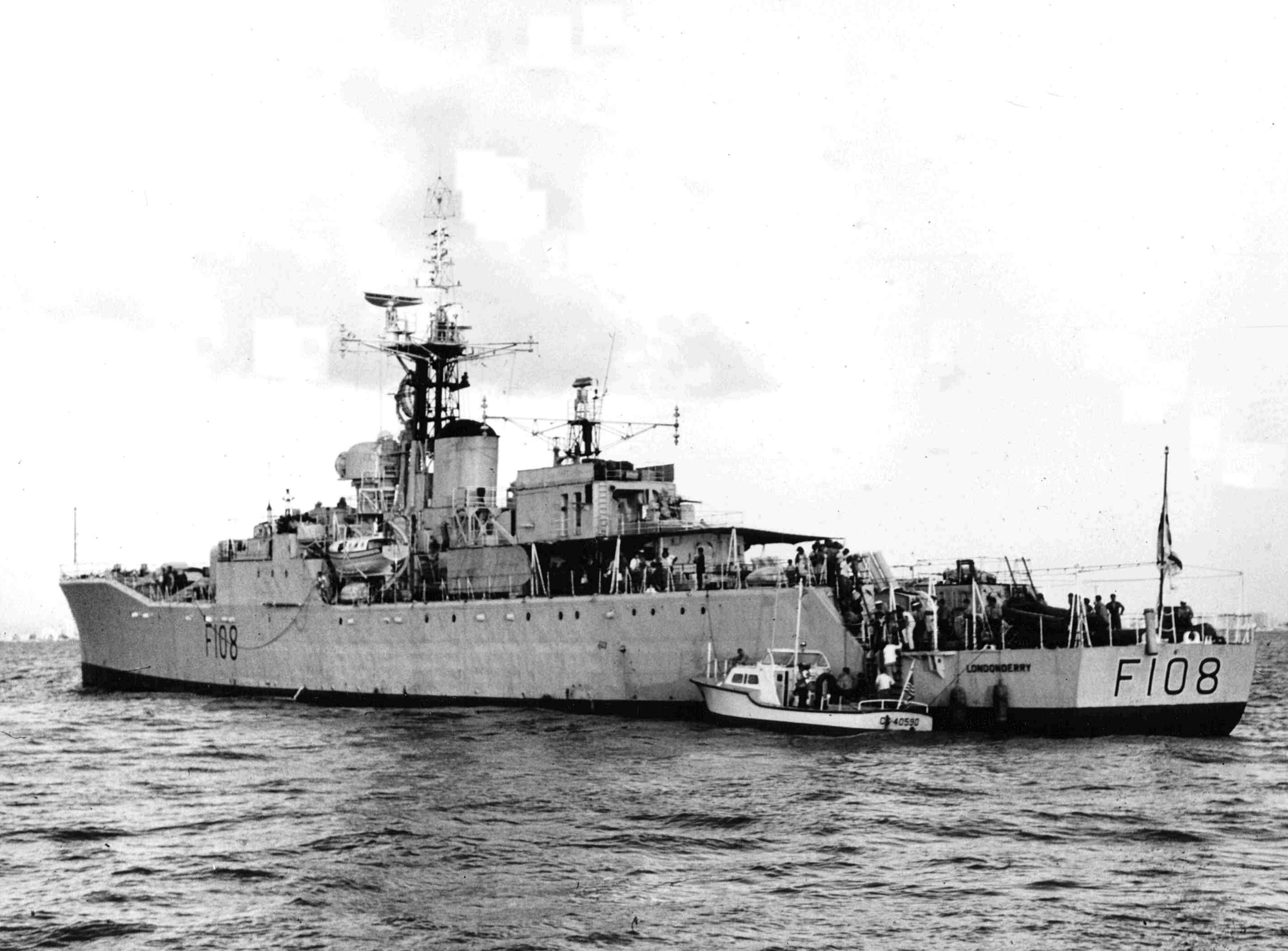 The Royal Navy Rothesay-class frigate HMS Londonderry (F 108) transferring Cuban refugees to U.S. Coast Guard utility boat CG-40590 at the Miami sea buoy, Florida (USA), on 4 May 1964.